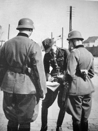 Capitulation of the Polish Forcec before Germans in Lwów, 20 September 1939